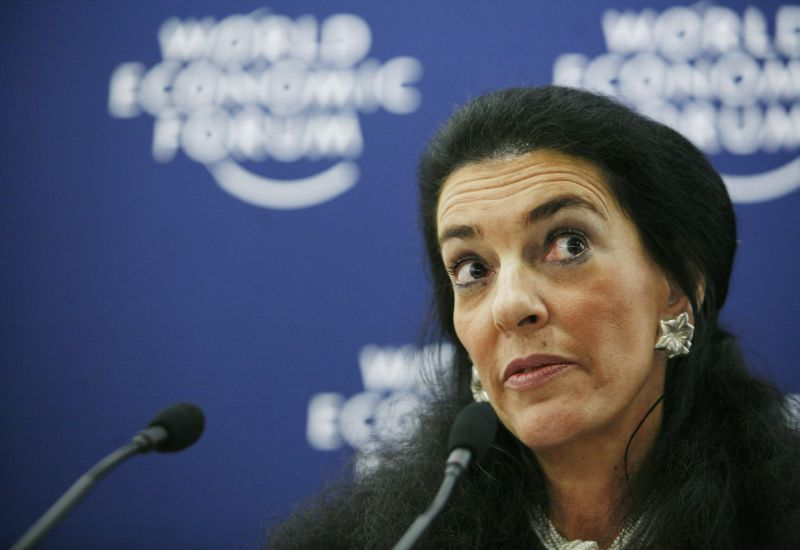 DAVOS/SWITZERLAND, 26JAN07 - Orit Gadiesh, Chairman, Bain & Company, USA; Member of the Foundation Board of the World Economic Forum, captured during the session 'Is Bigger Better in Private Equity?' at the Annual Meeting 2007 of the World Economic Forum in Davos, Switzerland, January 26, 2007. Copyright by World Economic Forum by Monika Flueckiger